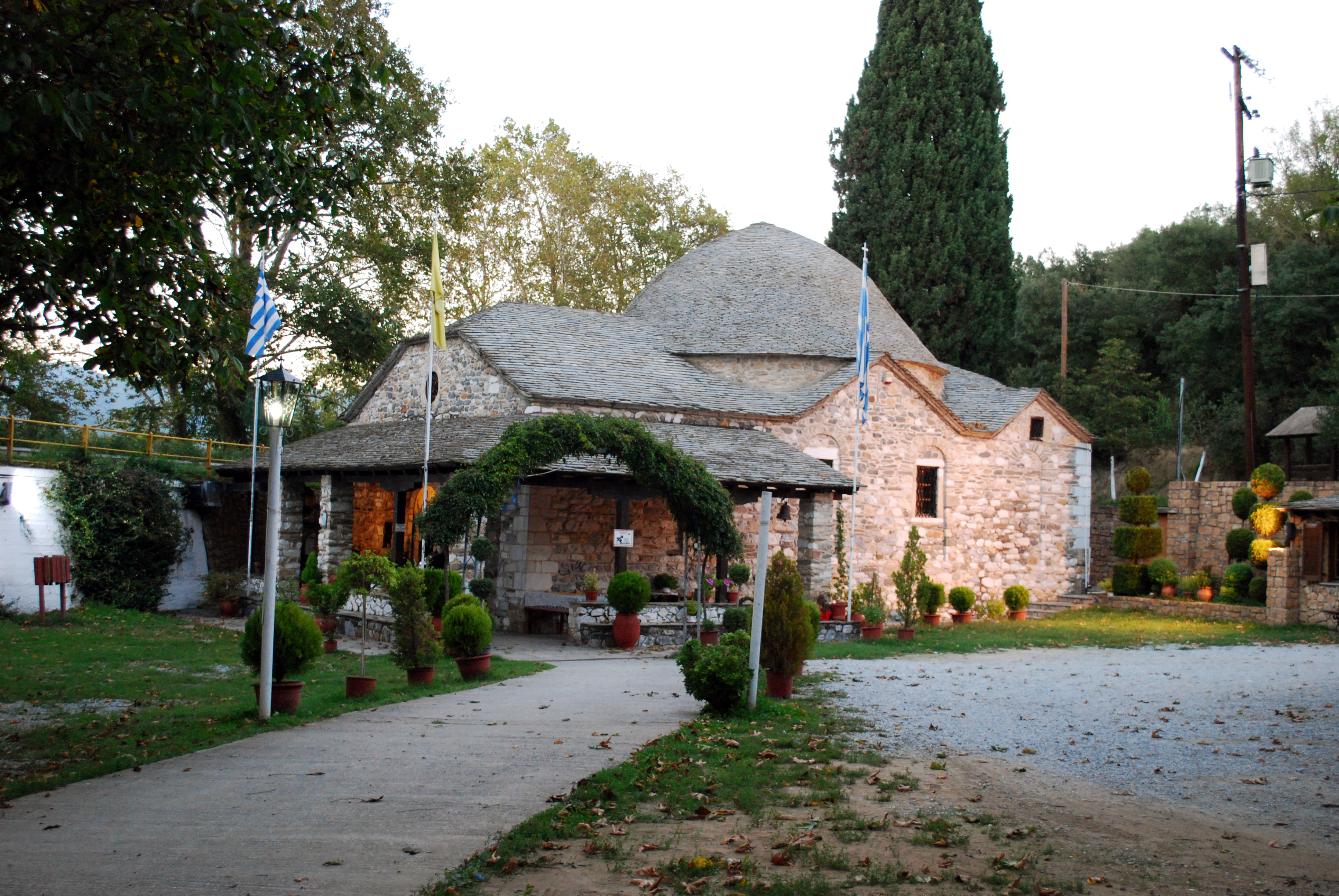 Agia Marina close to Rentina in the Thessaloniki regional unit, Greece.